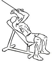 an exercise of triceps